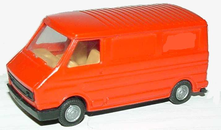 FIAT 242